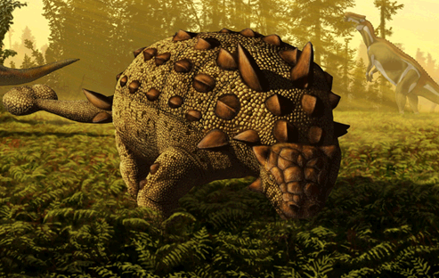 Scolosaurus feeding